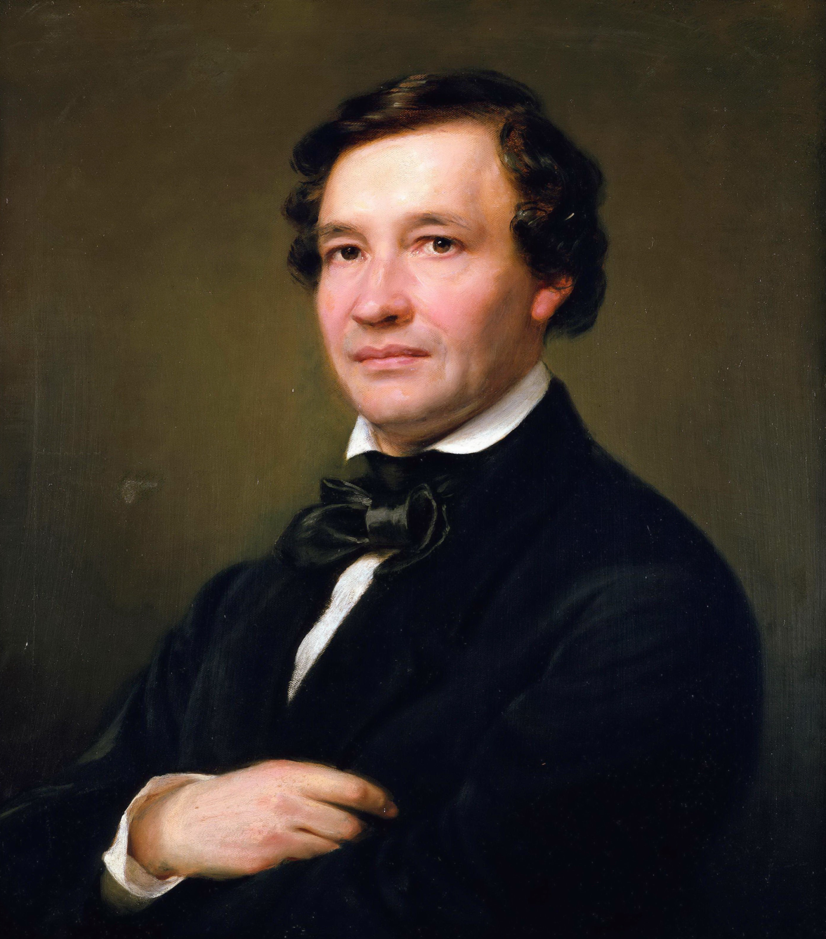 Depicted person: Wilhelm Taubert